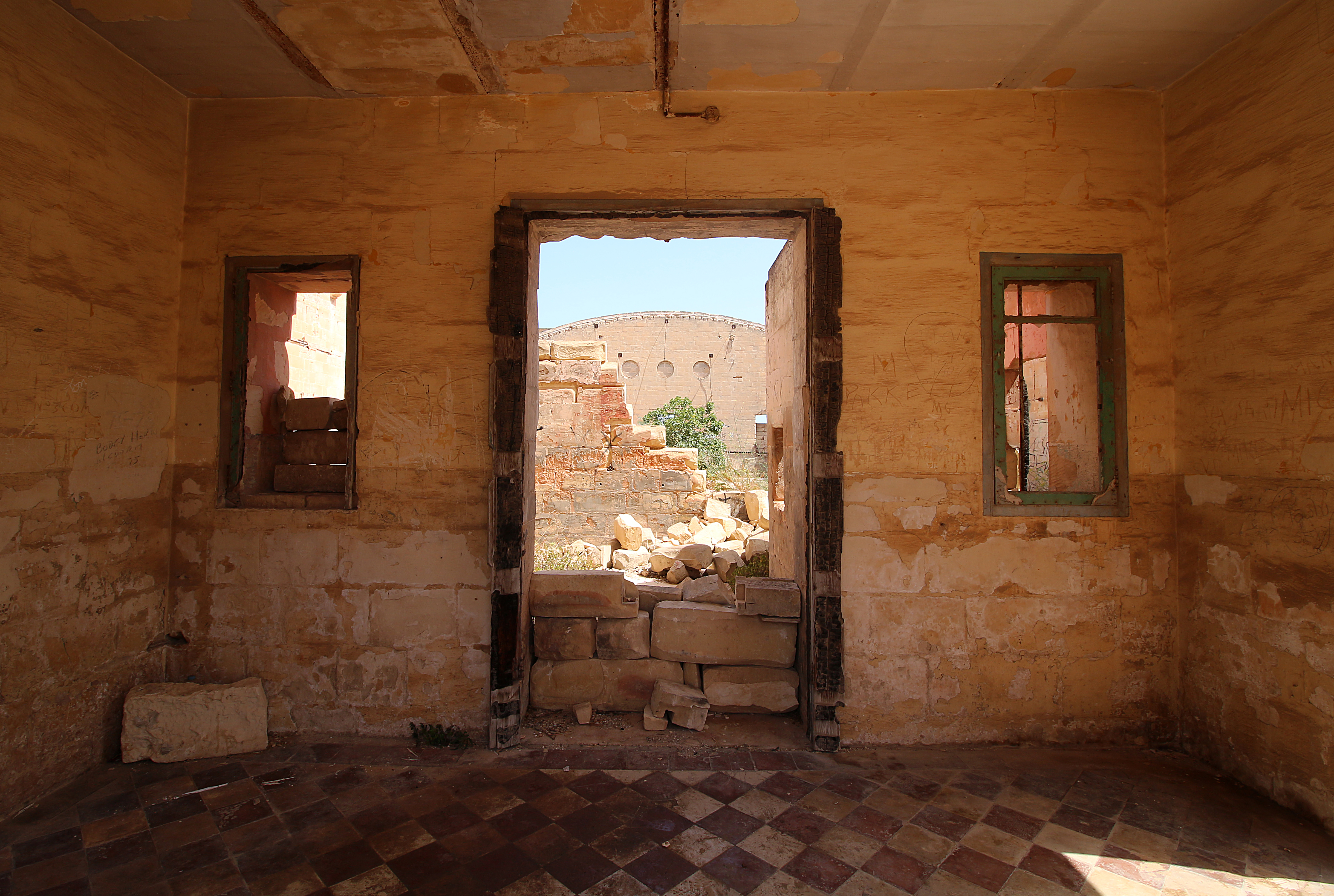 The ruins of Australia Hall in Pembroke